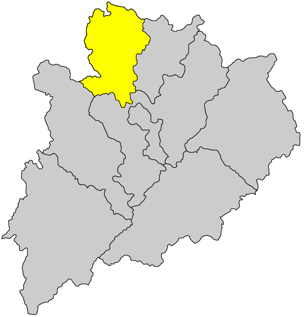 Location of Pingyuan County, Meizhou